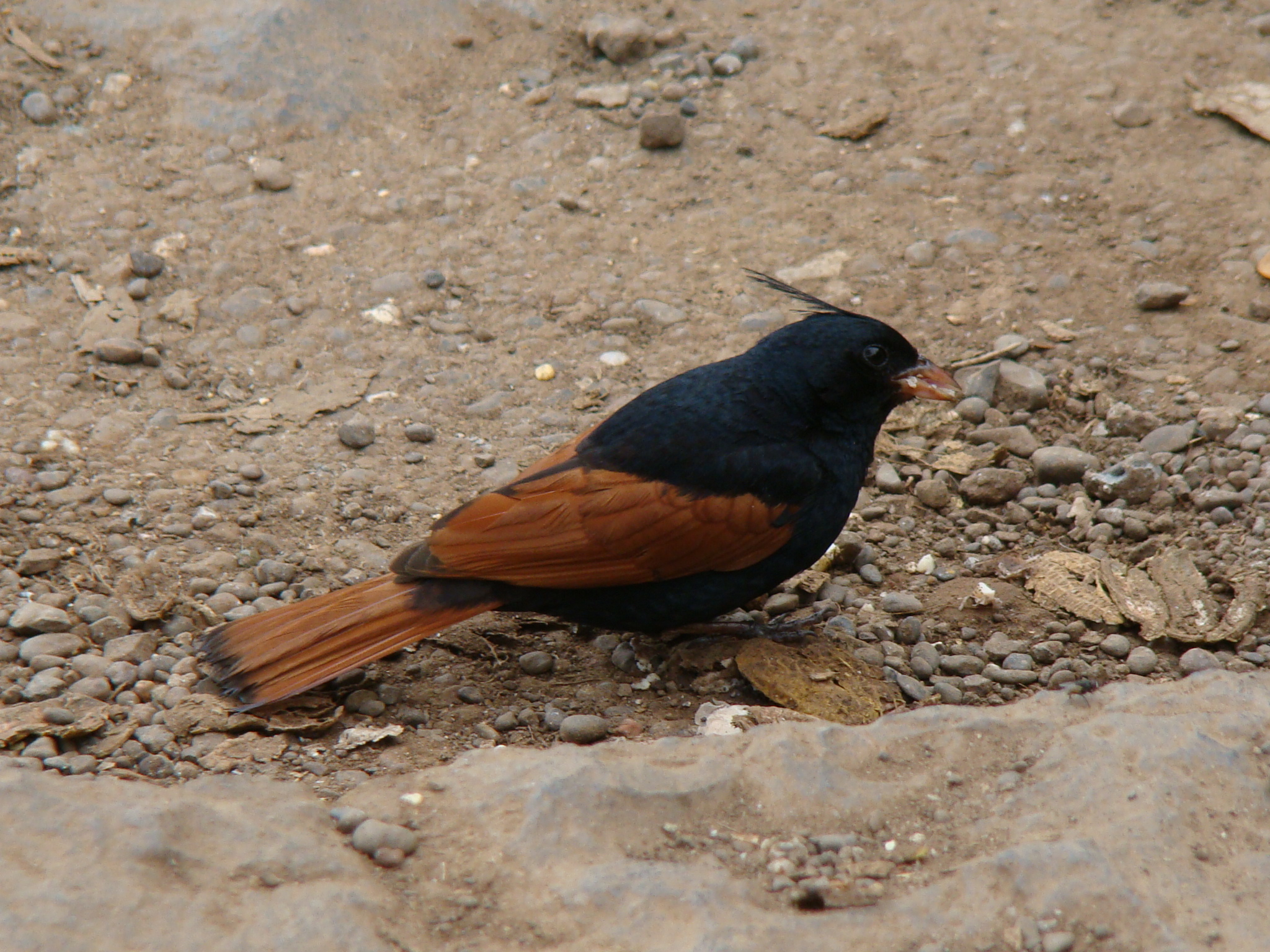 Crested Bunting spotted at Sinhagad Fort, Pune.